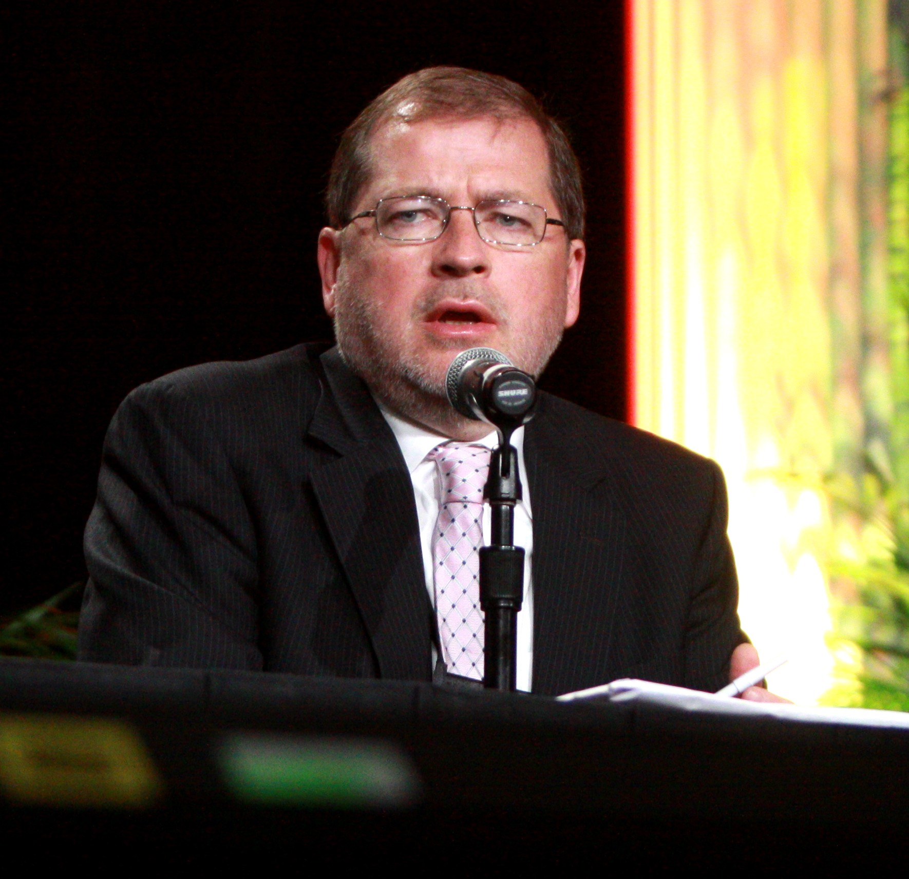 David Boaz, Joseph Farah and Grover Norquist speaking at the 2013 FreedomFest in Las Vegas, Nevada.